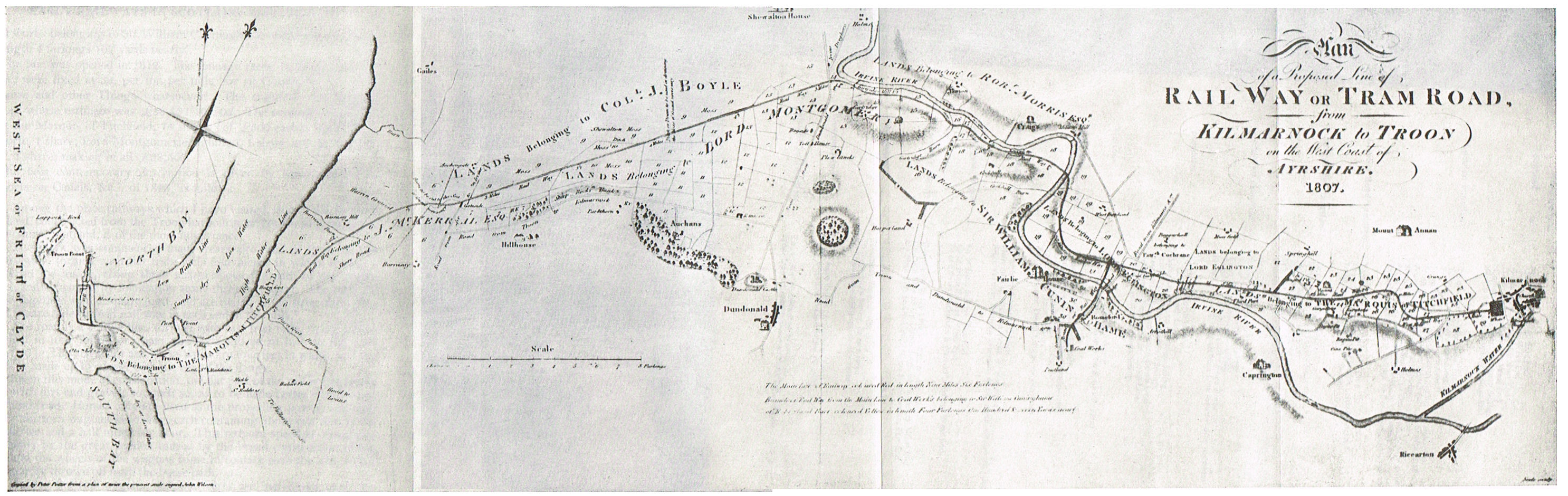 Original route design for Kilmarnock and Troon Railway, Scotland